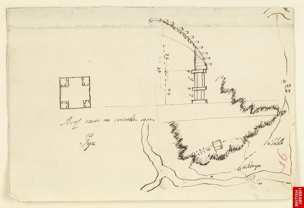 Pen-and-ink drawing of the plan of the Barabar Caves and an elevation of the entrance to the Lomas Rishi Cave, Barabar, Bihar.